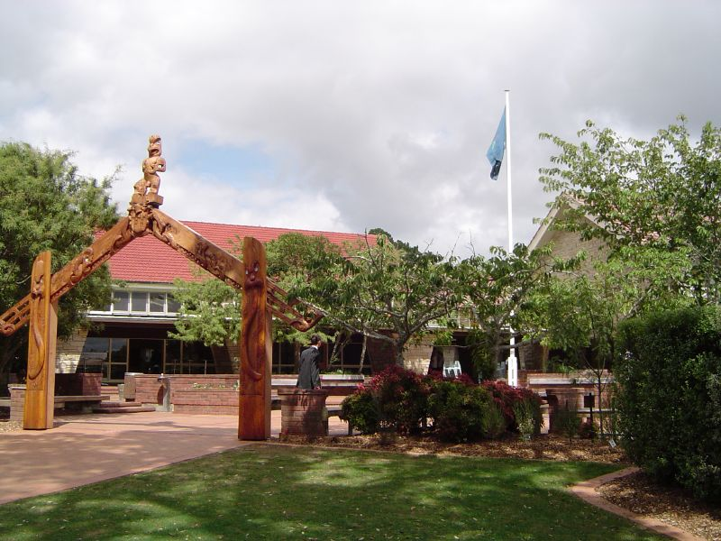 Dilworth School, Auckland, New Zealand, March 2006